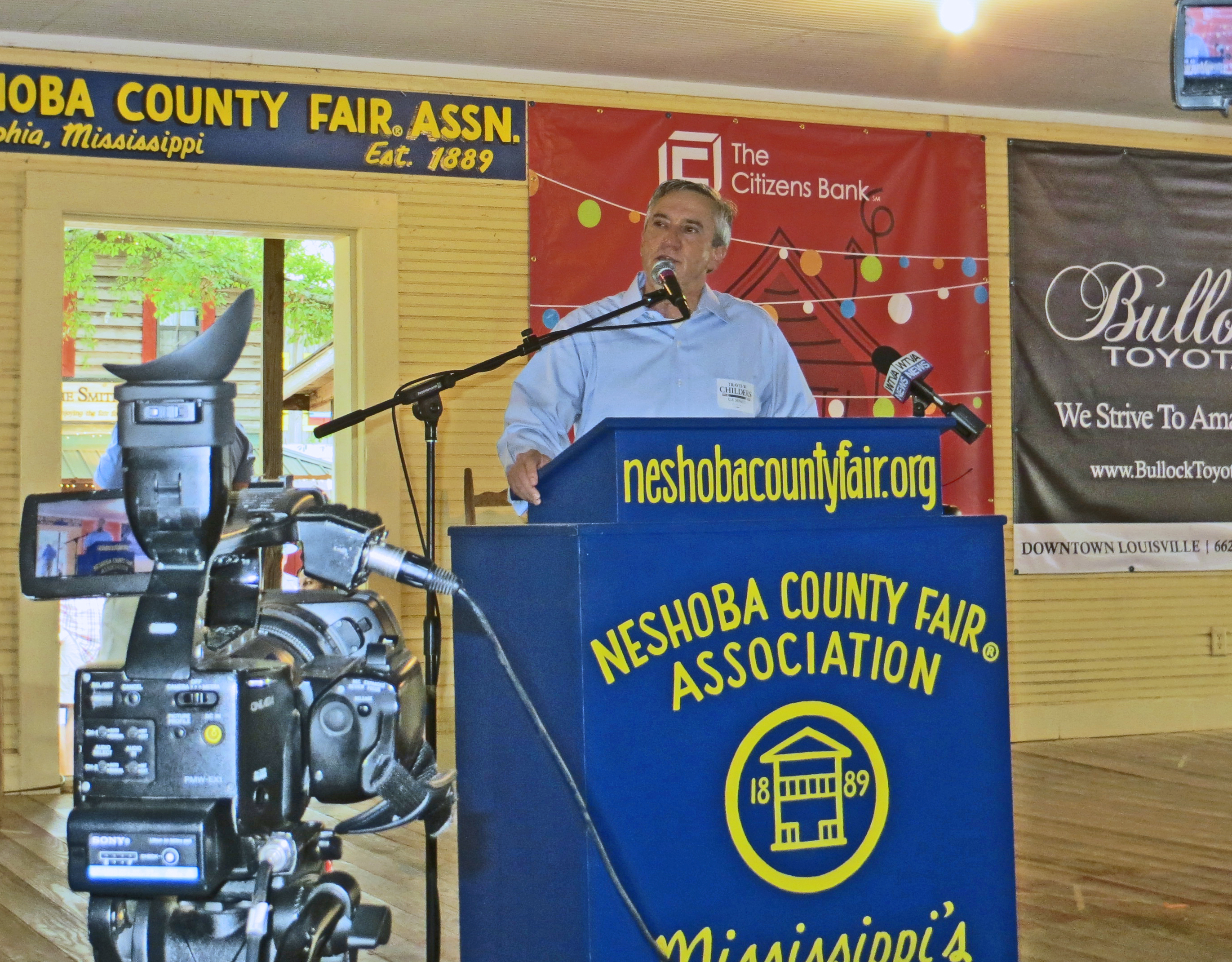 I'm looking forward to seeing Travis Childers in Washington soon as Senator Travis Childers.